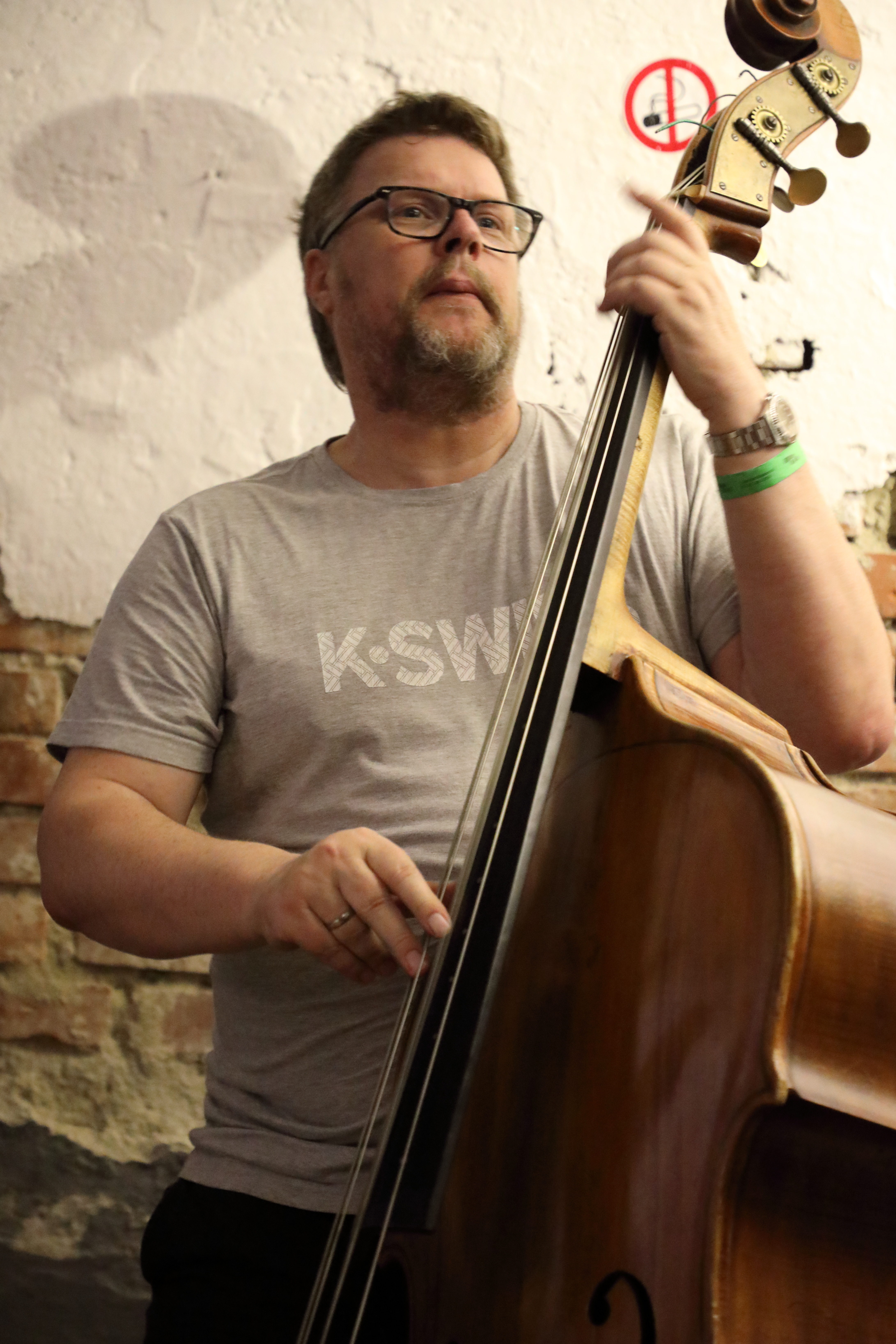 Web Web are Roberto Di Gioia (piano, synth, perc), Tony Lakatos (tenor sax, soprano sax), Christian von Kaphengst (db) & Peter Gall (dr). Here´s the concert at INNtöne Jazzfestival 2019 in the former hog house, now called St. Pig´s Pub.